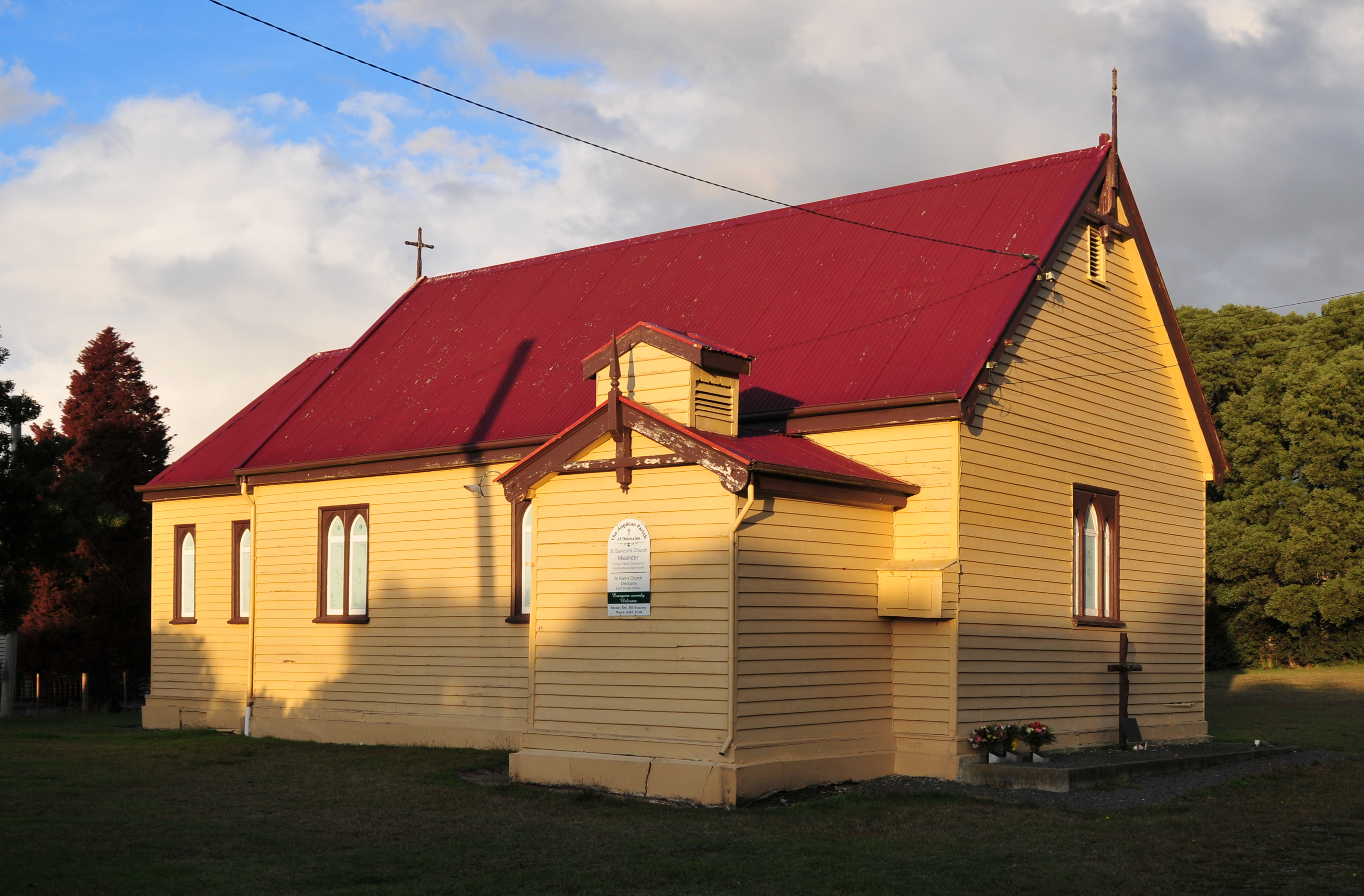 View looking southeast of St Saviour's Anglican church, Meander, Tasmania